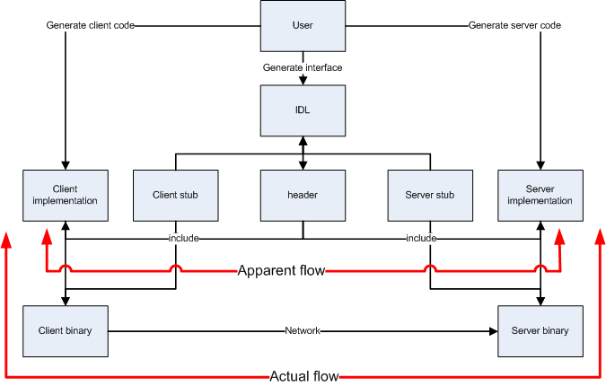 a basic overview of how a RPC-system is built up